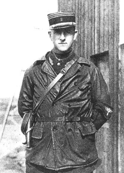 Captain Oswald Watt, an English-born Australian aviator who was a member of the French Foreign Legion before joining the Australian Flying Corps.